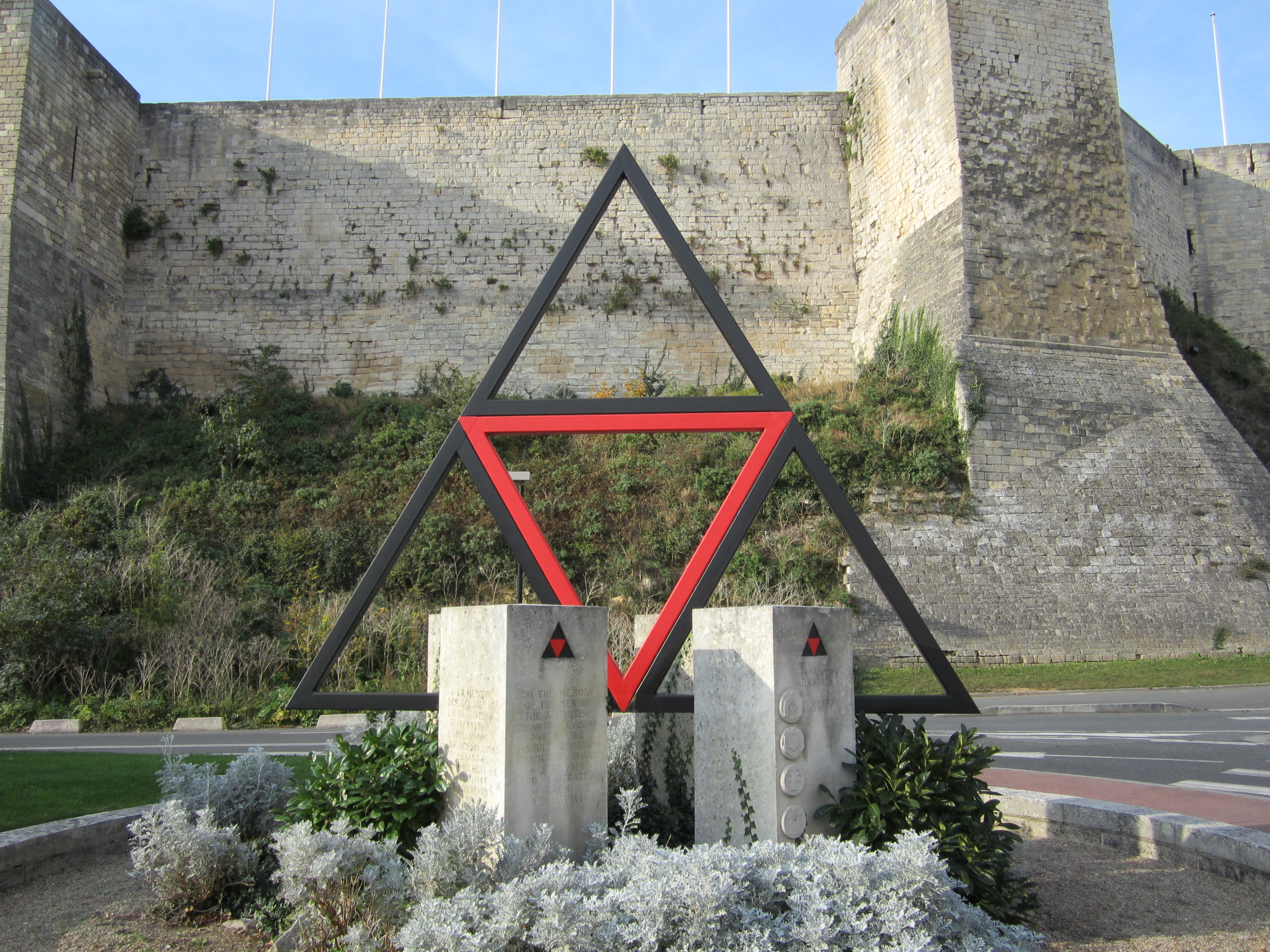 The monument to the British 3rd Division in Caen. The monument commemorates the division's role in the D-Day landing on 6 June 1944, and its role in liberating Caen on 9 July 1944